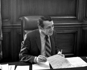 Harvey Milk filling in for Mayor Moscone for a day March 7, 1978